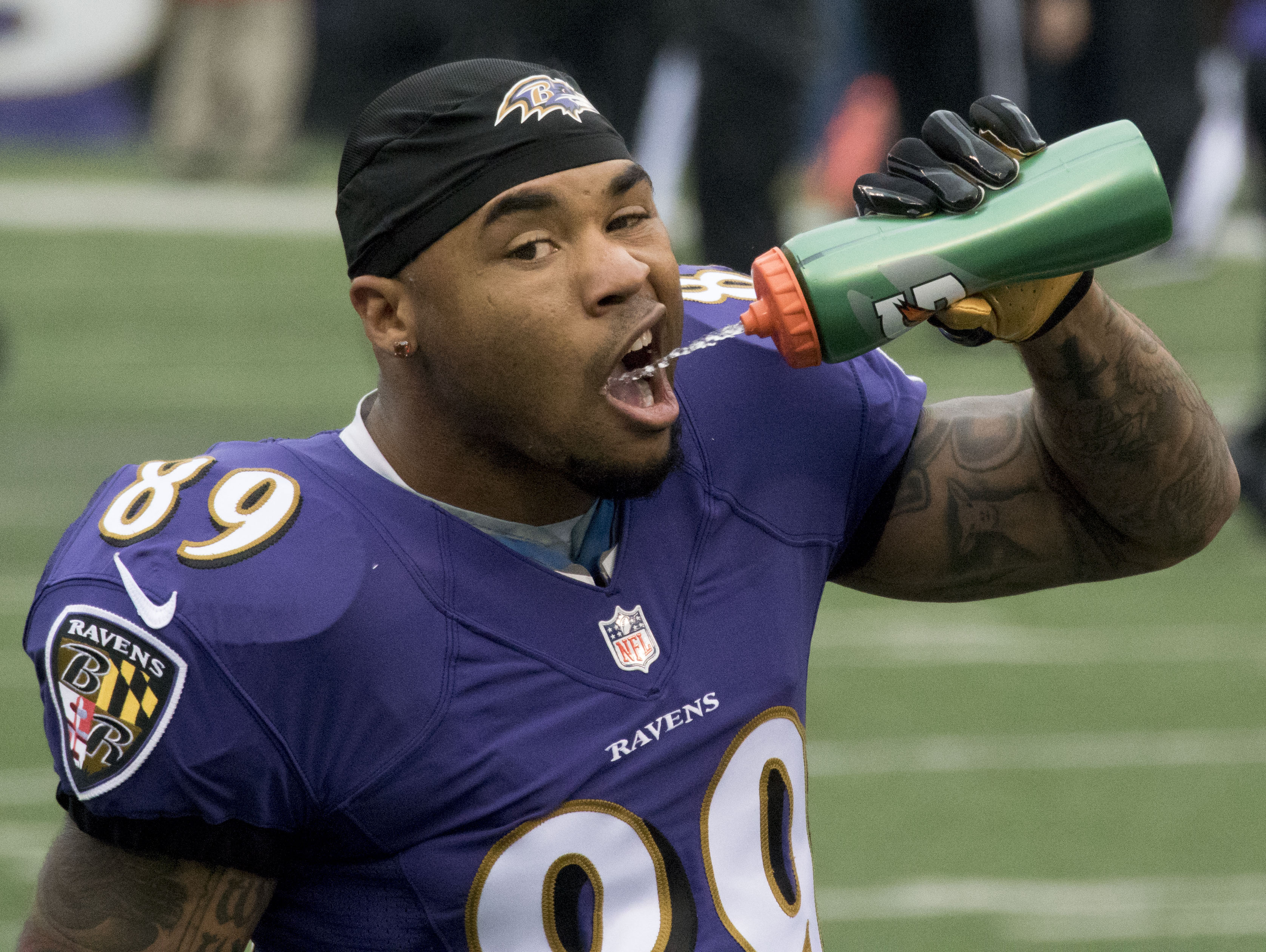 Jaguars at Ravens 12/14/14